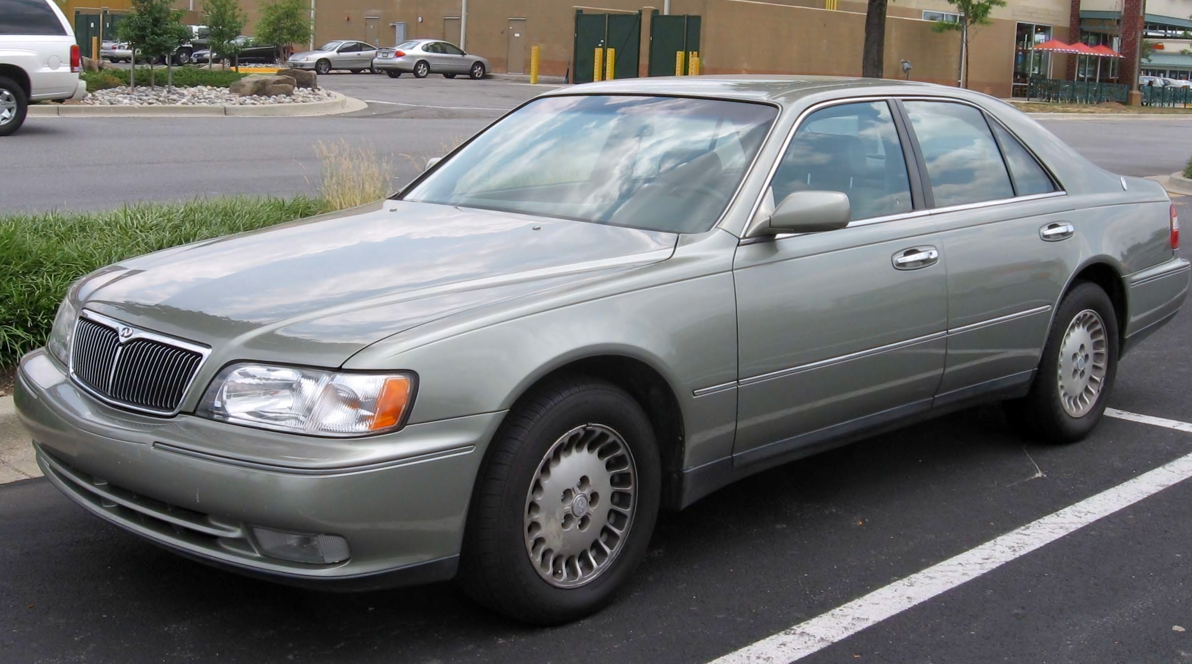 1997-1998 Infiniti Q45 photographed in USA.